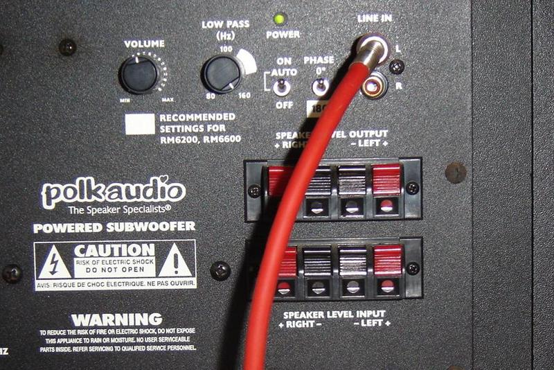 Self-taken picture of the back panel of an active sub-woofer manufactured by Polk Audio.